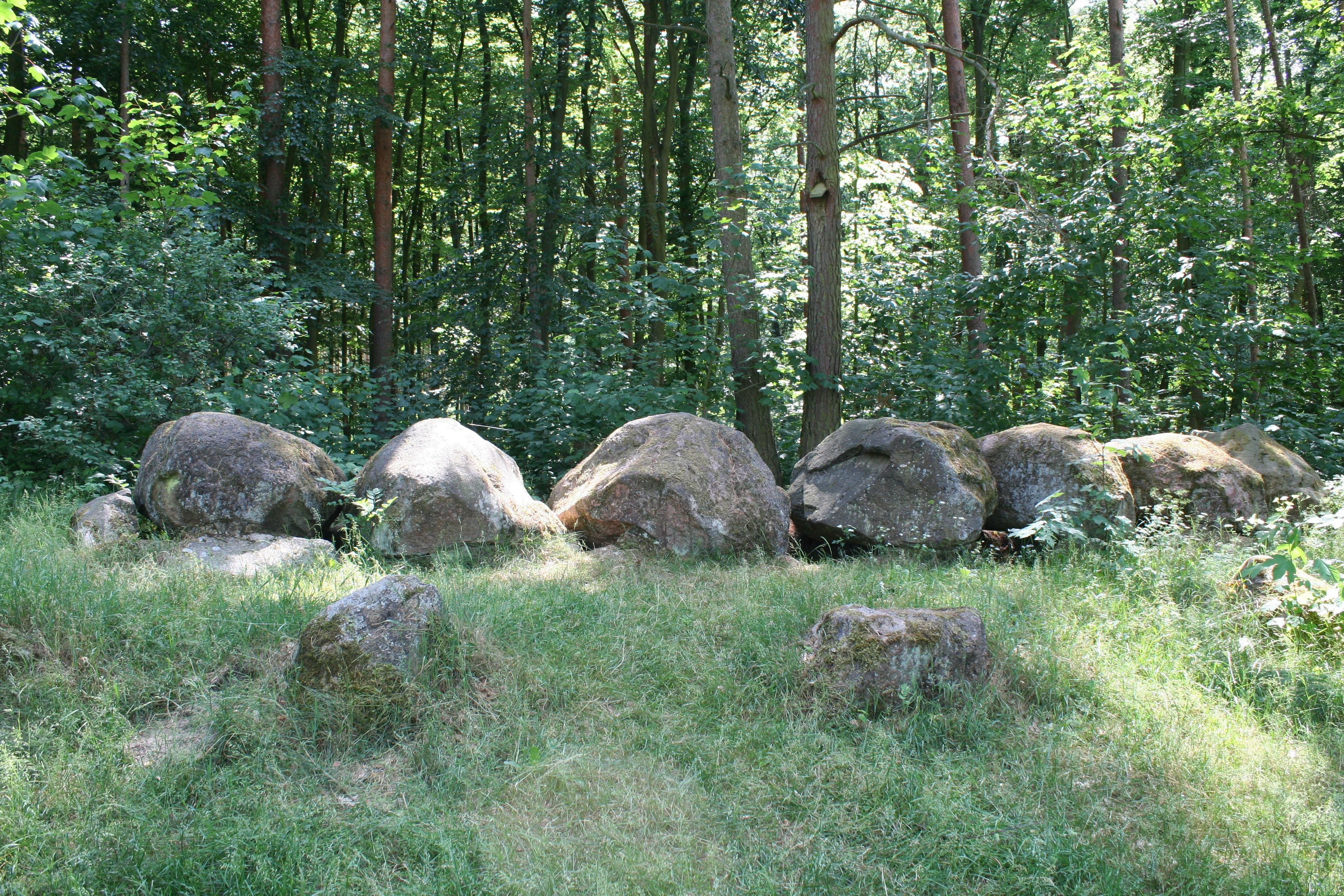 Megalithic tomb "Küchentannen" near Haldensleben